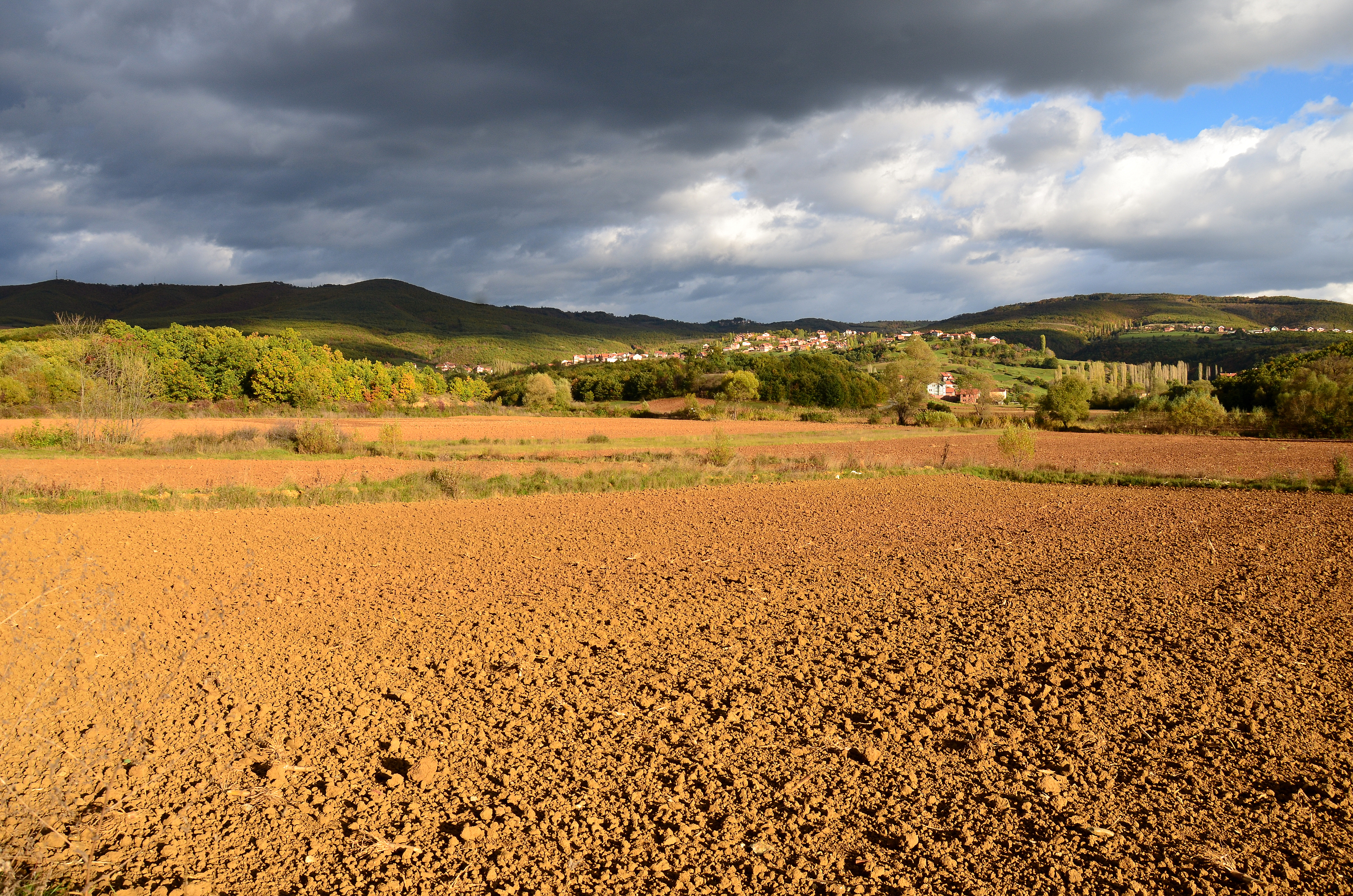 The landscape and the village of Terpeze , central Kosova